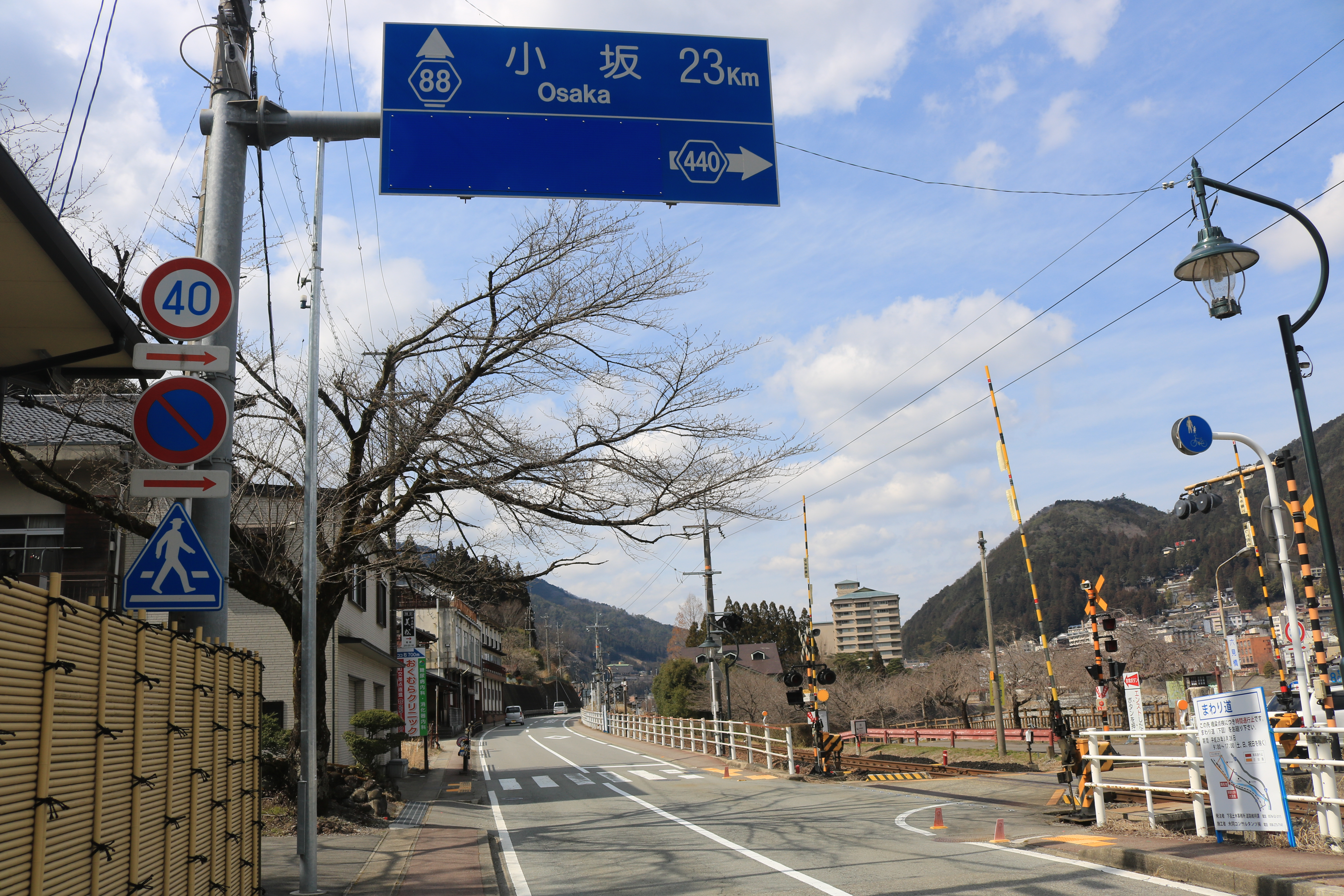 Gifu Prefectural Road Route 88 and Gifu Prefectural Road Route 440 in Shogano, Gero, Gifu prefecture, Japan.